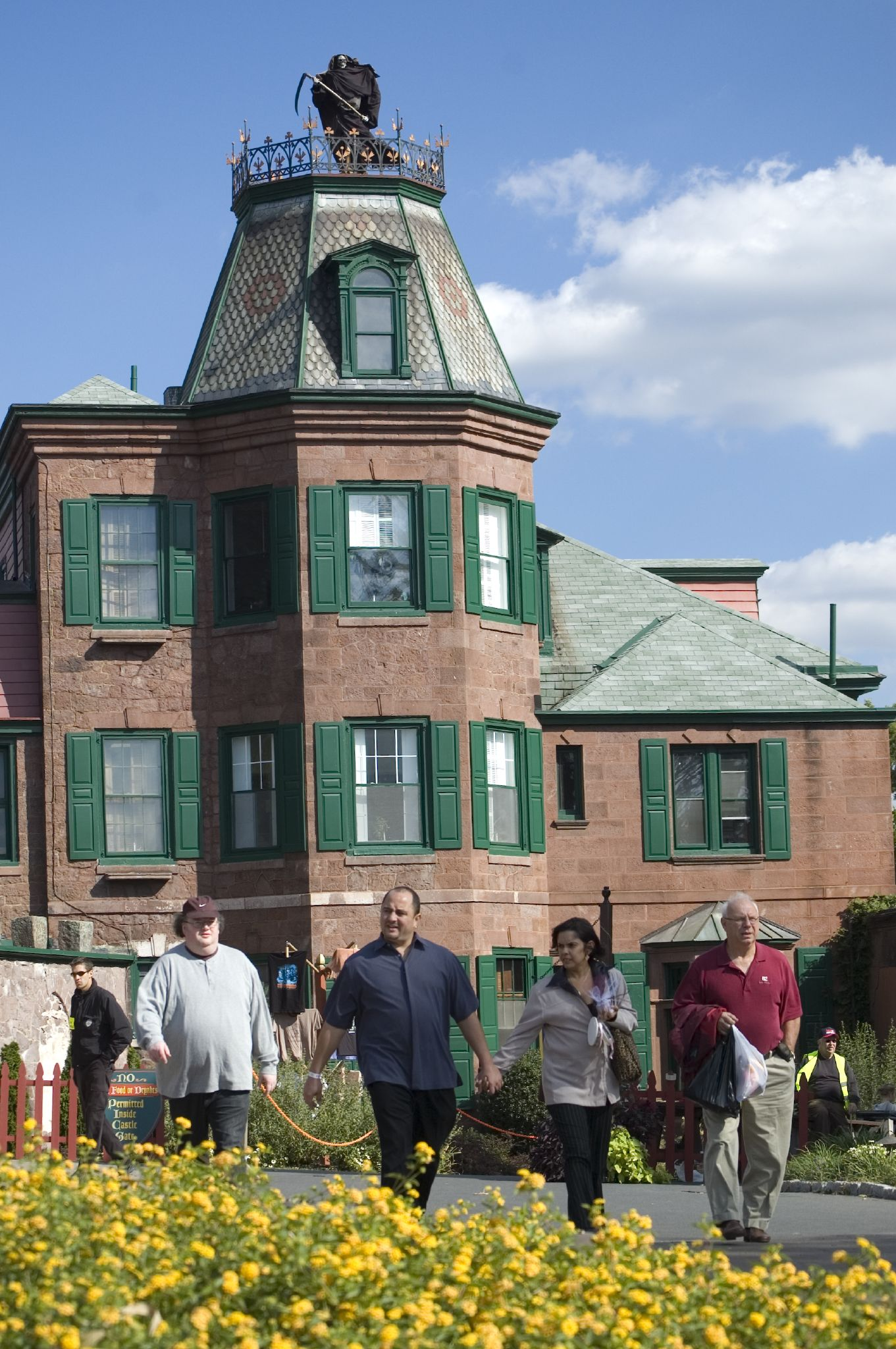 Tra la-la la-la. Ever had the feeling someone was staring at you?